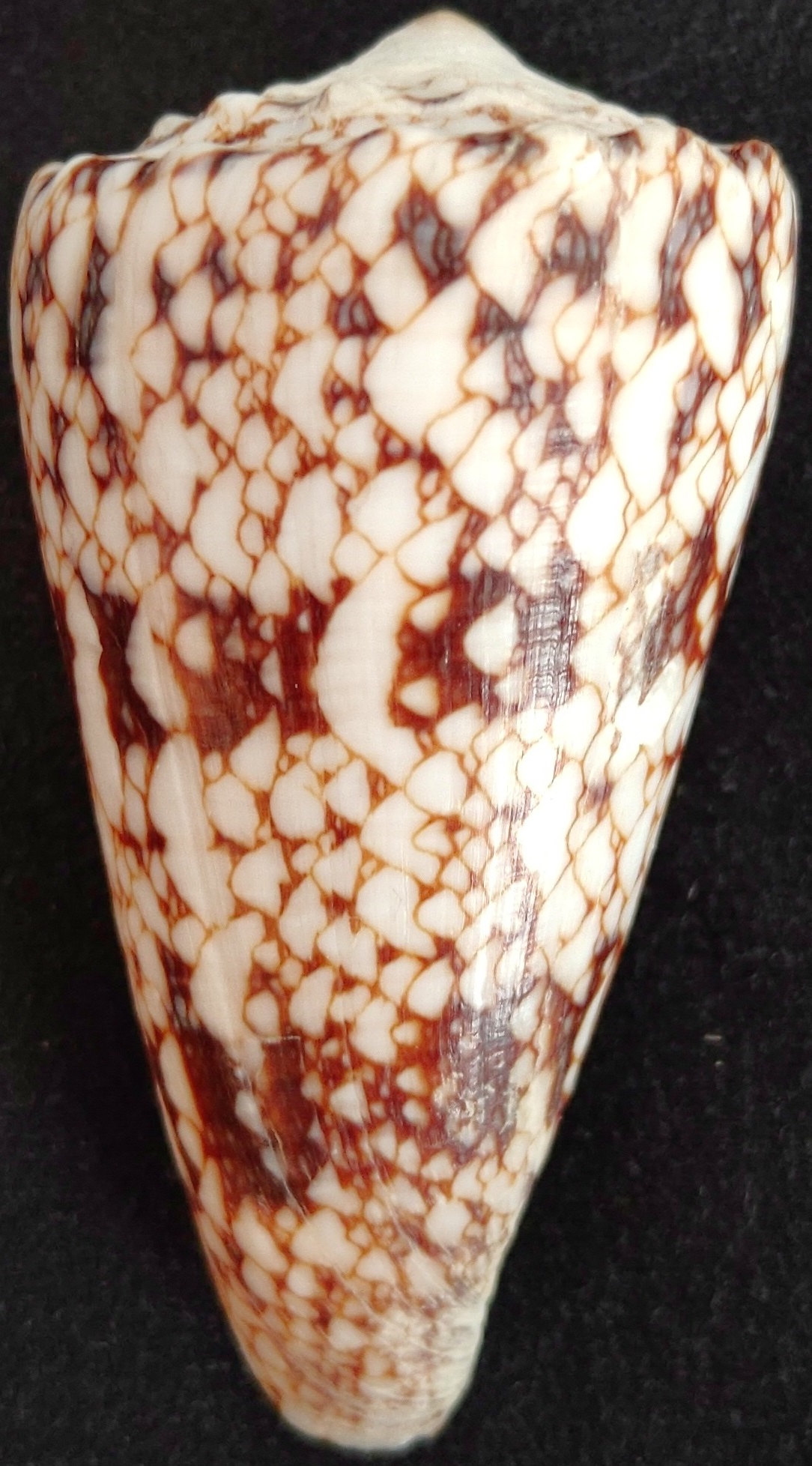 Conus Araneosus Nicobaricus Back